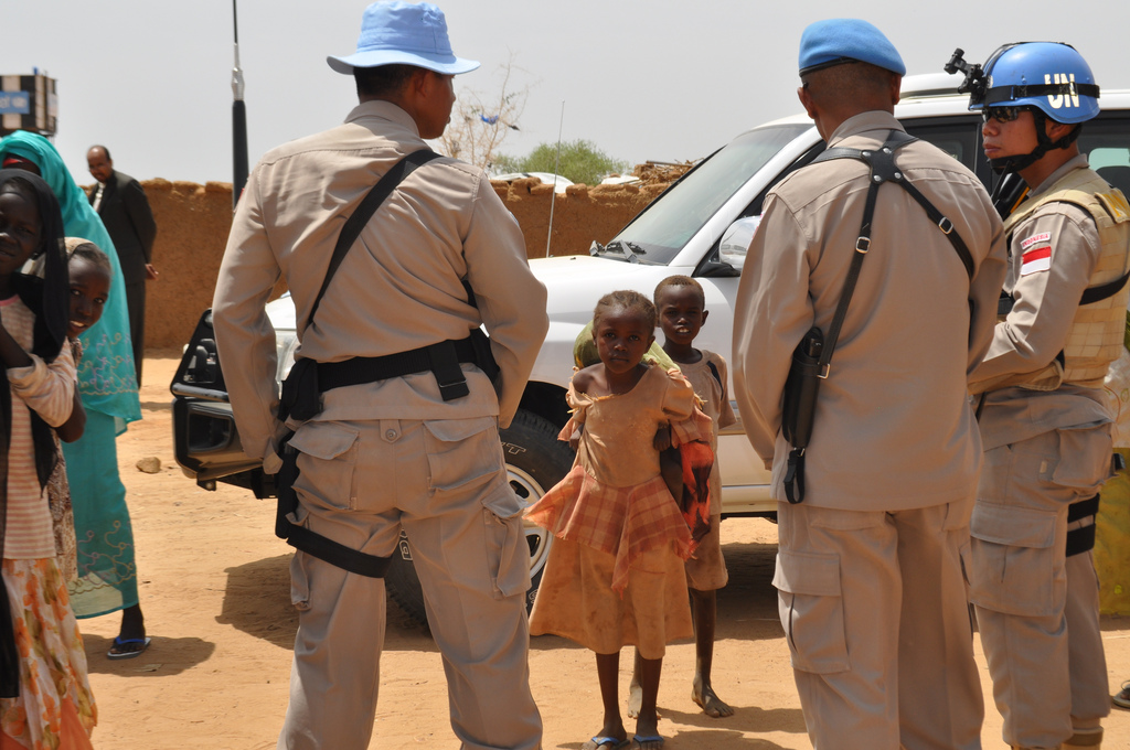 UN peacekeepers look on as curious children approach.